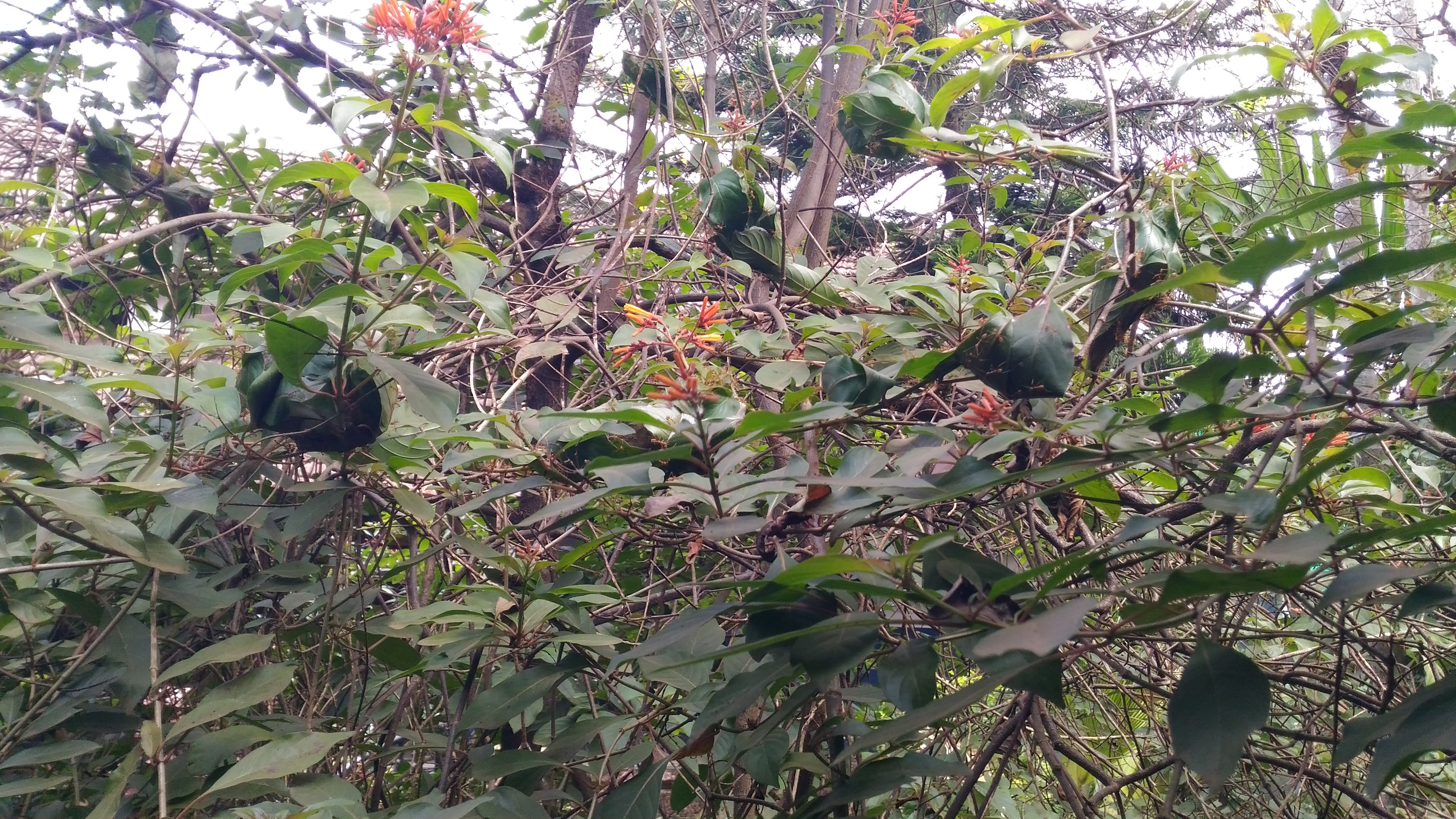 Ants Nest